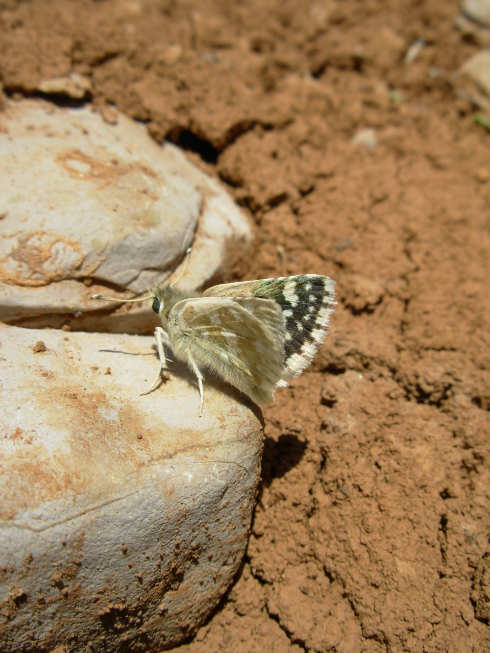 הספרית החרמון (Spialia phlomidis) 1 ביוני 2013